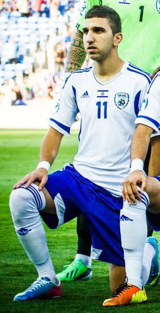 . Moanes Dabour, UEFA U21s Football championships in Israel between Israel & Norway Photo By David Katz